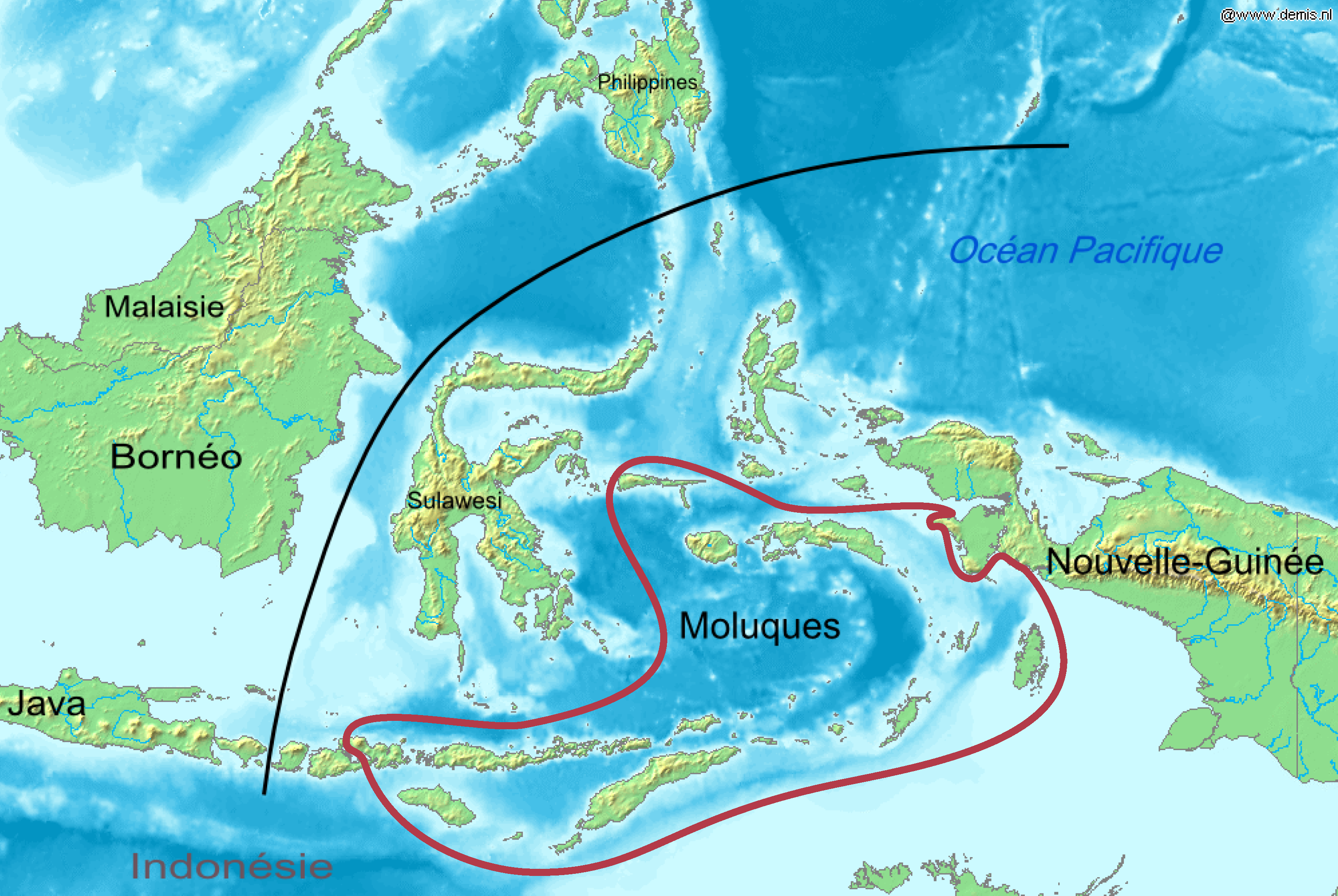 An outline of the Central Malayo-Polynesian languages